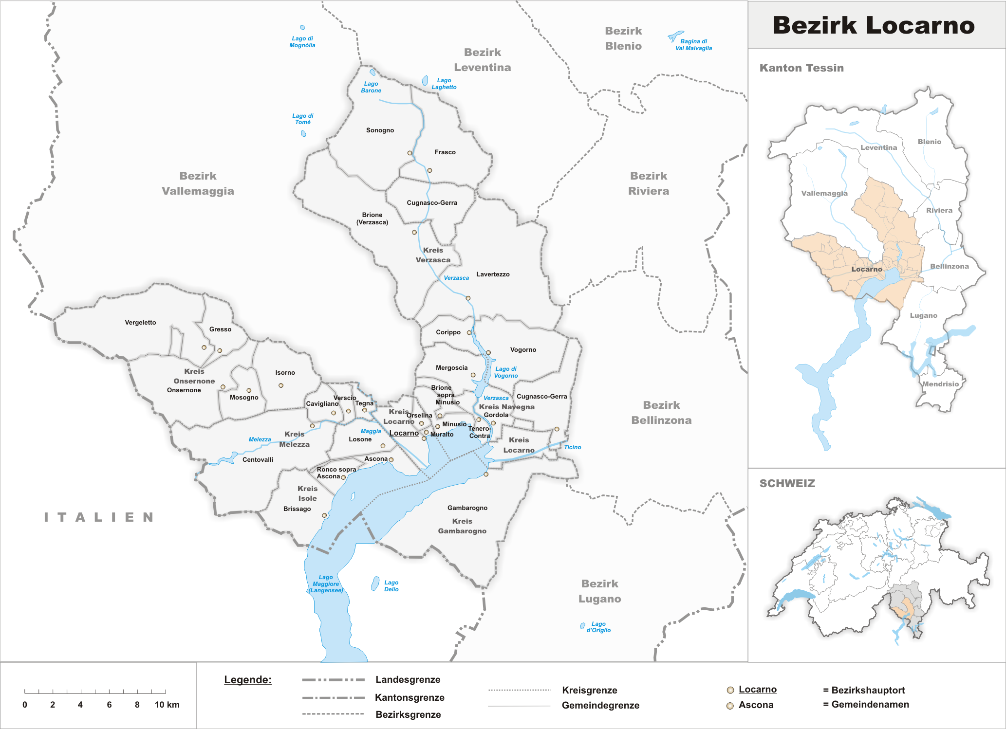 Municipalities in the district of Locarno 2010